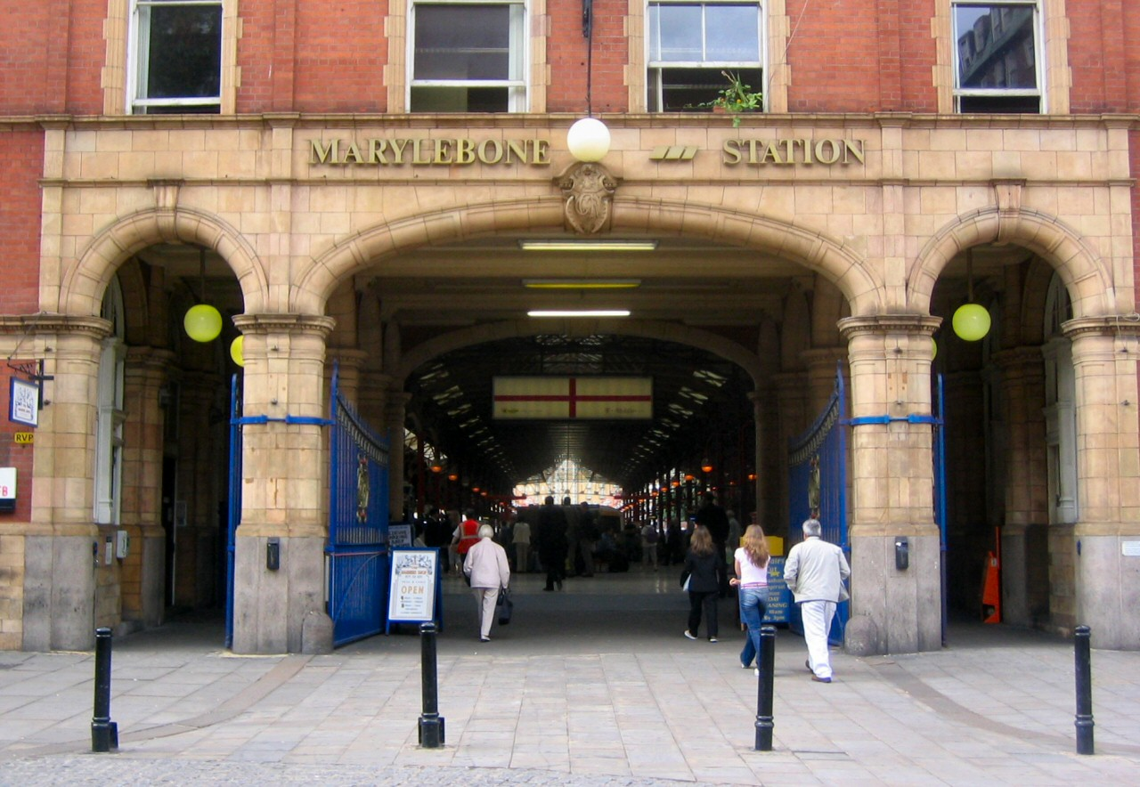 Marylebone station, London Date: 28th June 2004 16:34 2 Photograph: ed g2s • talk